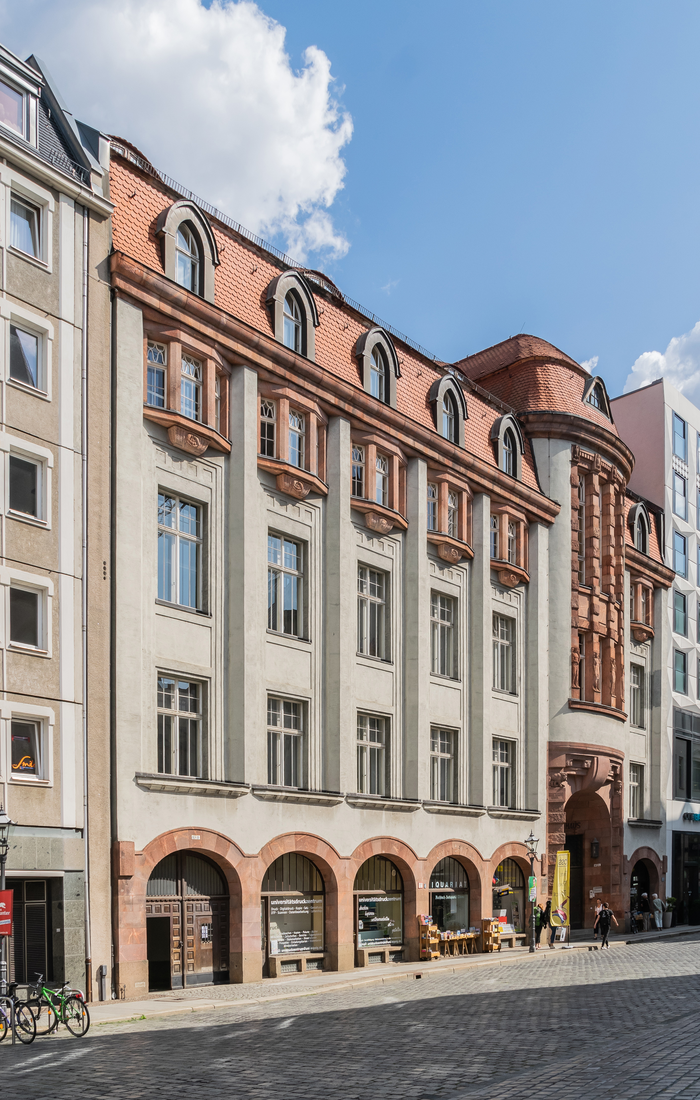 Geschwister-Scholl-Haus at Ritterstraße 8-10 in Leipzig, Saxony, Germany